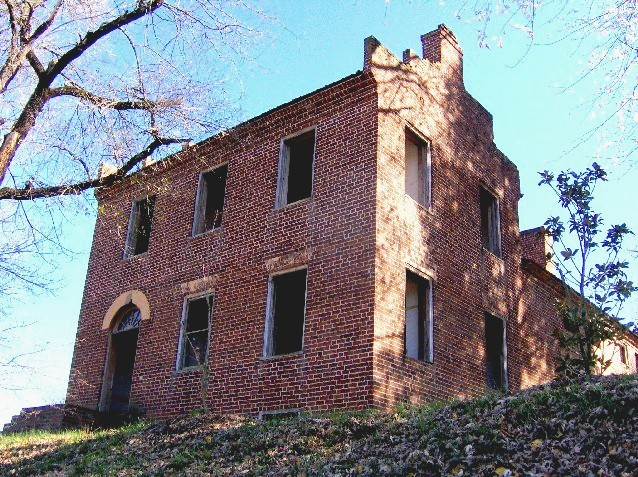 The Samuel Cleage House along Highway 11 near Athens, Tennessee, USA. This should not be confused with another house Cleage built near the Tennessee Wesleyan campus in downtown Athens.